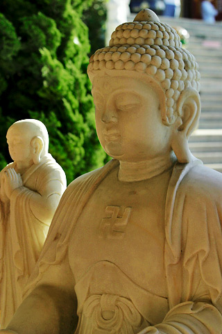 A statue of the Buddha with a swastika (Indian good luck symbol) on his chest. By Aaron Logan, from